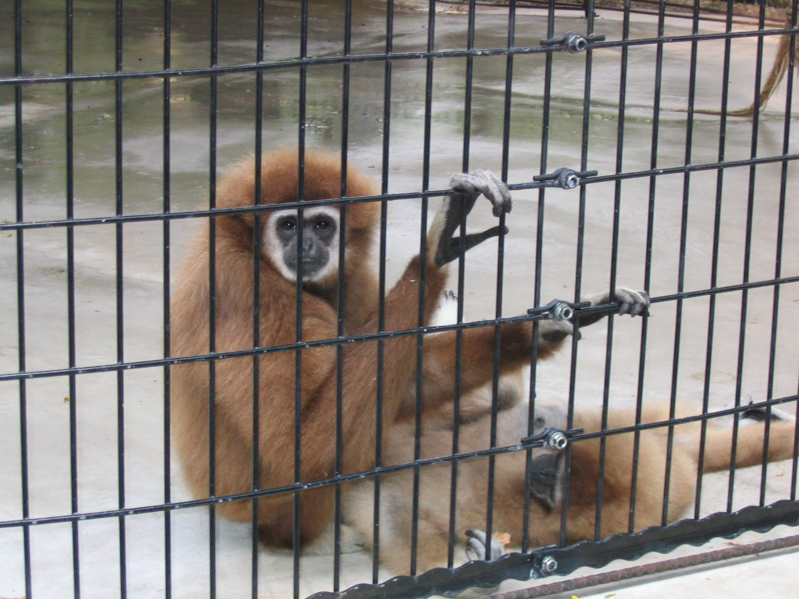 Hylobates lar, Henry Vilas Zoo, Madison, Wisconsin